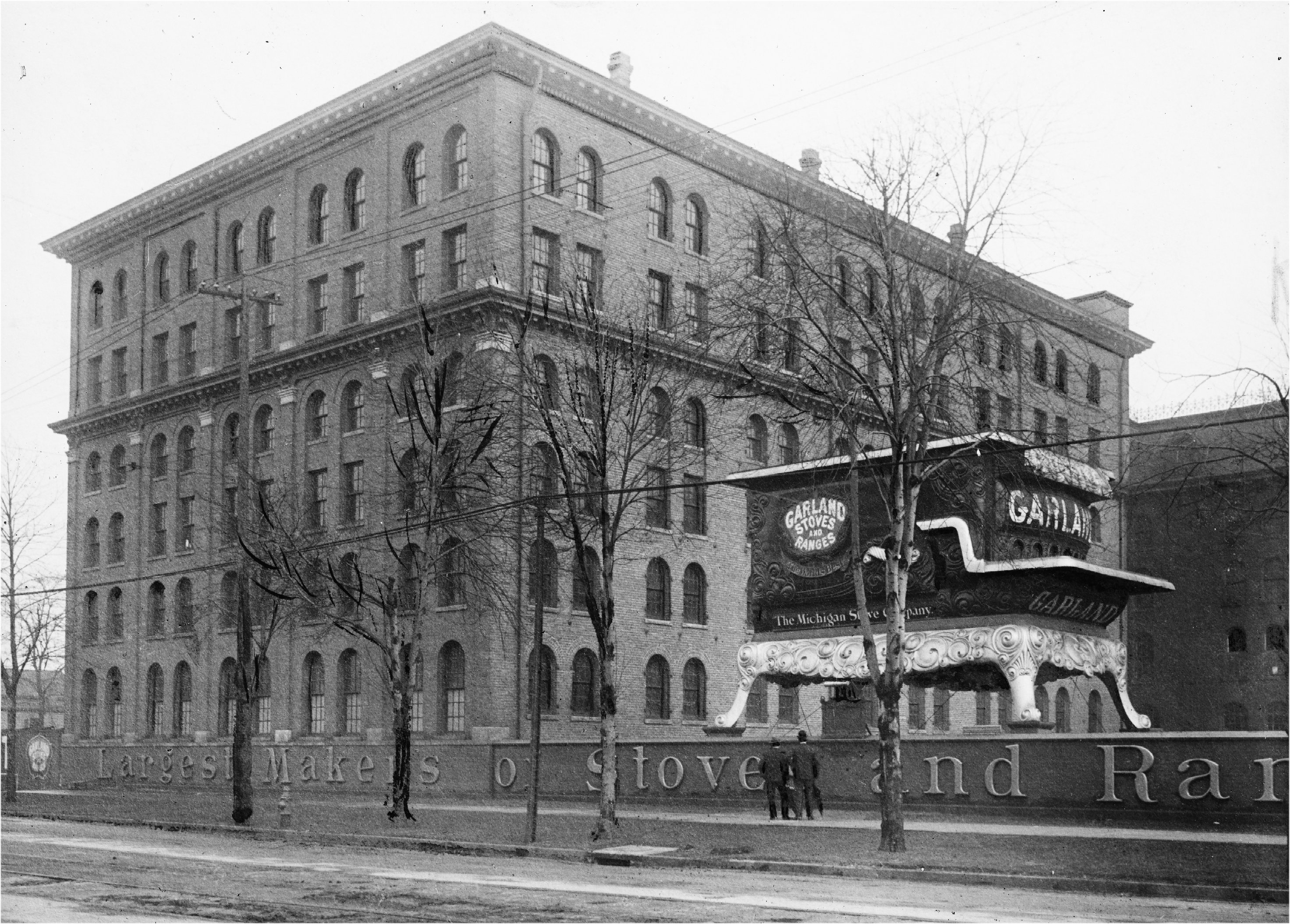 Michigan Stove Company office building with world's largest stove in front